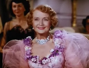 Cropped screenshot of Billie Burke from the trailer for the film Small Town Girl.